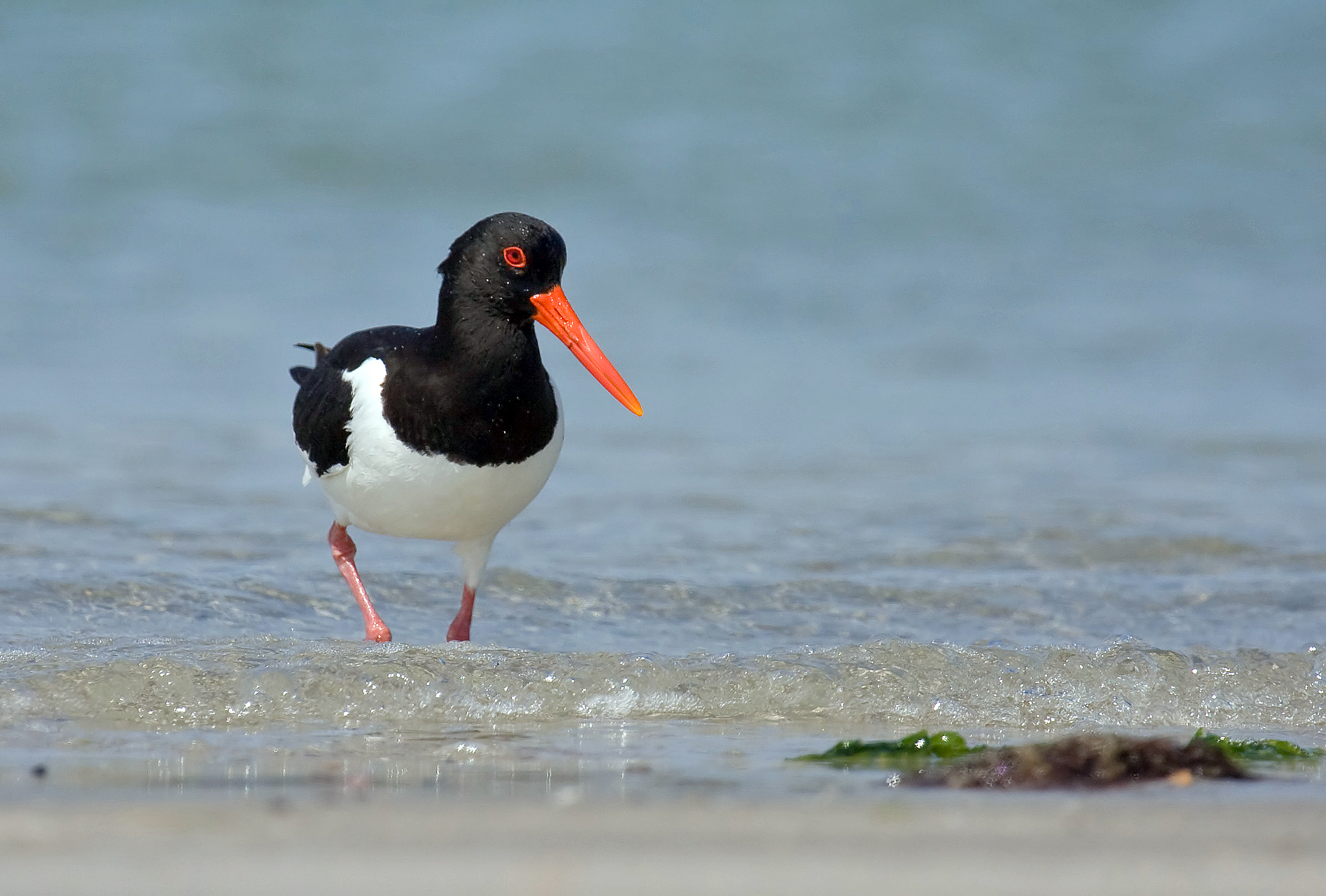 Eurasian Oystercatcher